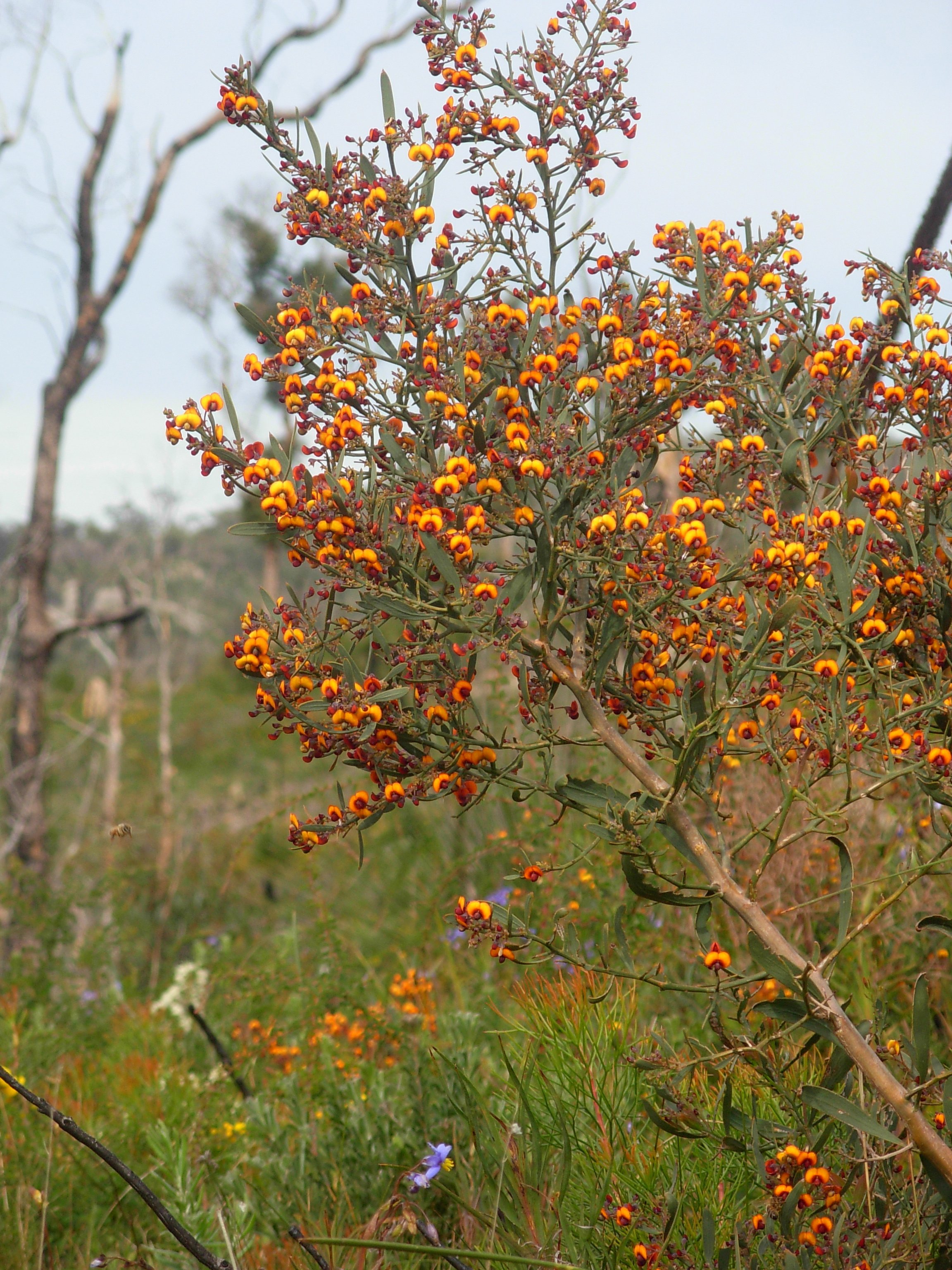 Davies Horrida taken at the top of Statham's Quarry, Gooseberry Hill, Western Australia